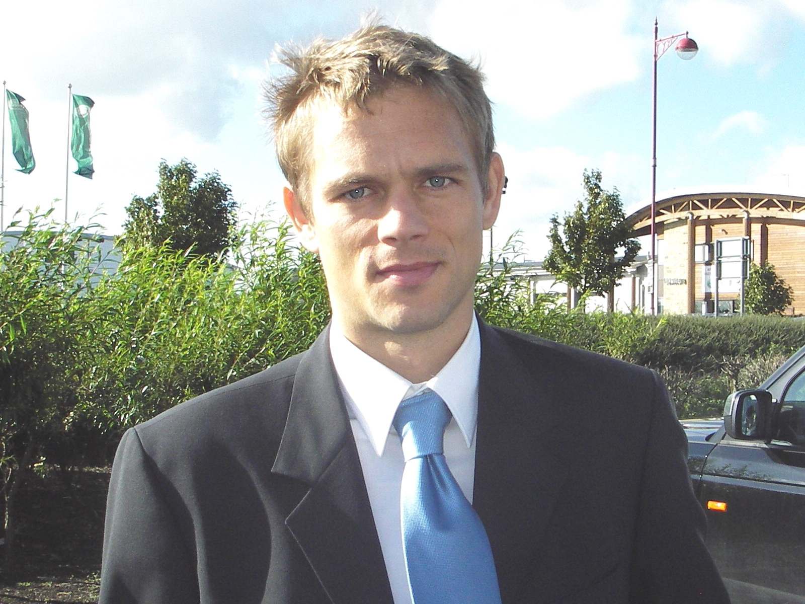 Morten Bisgaard, Derby County player.